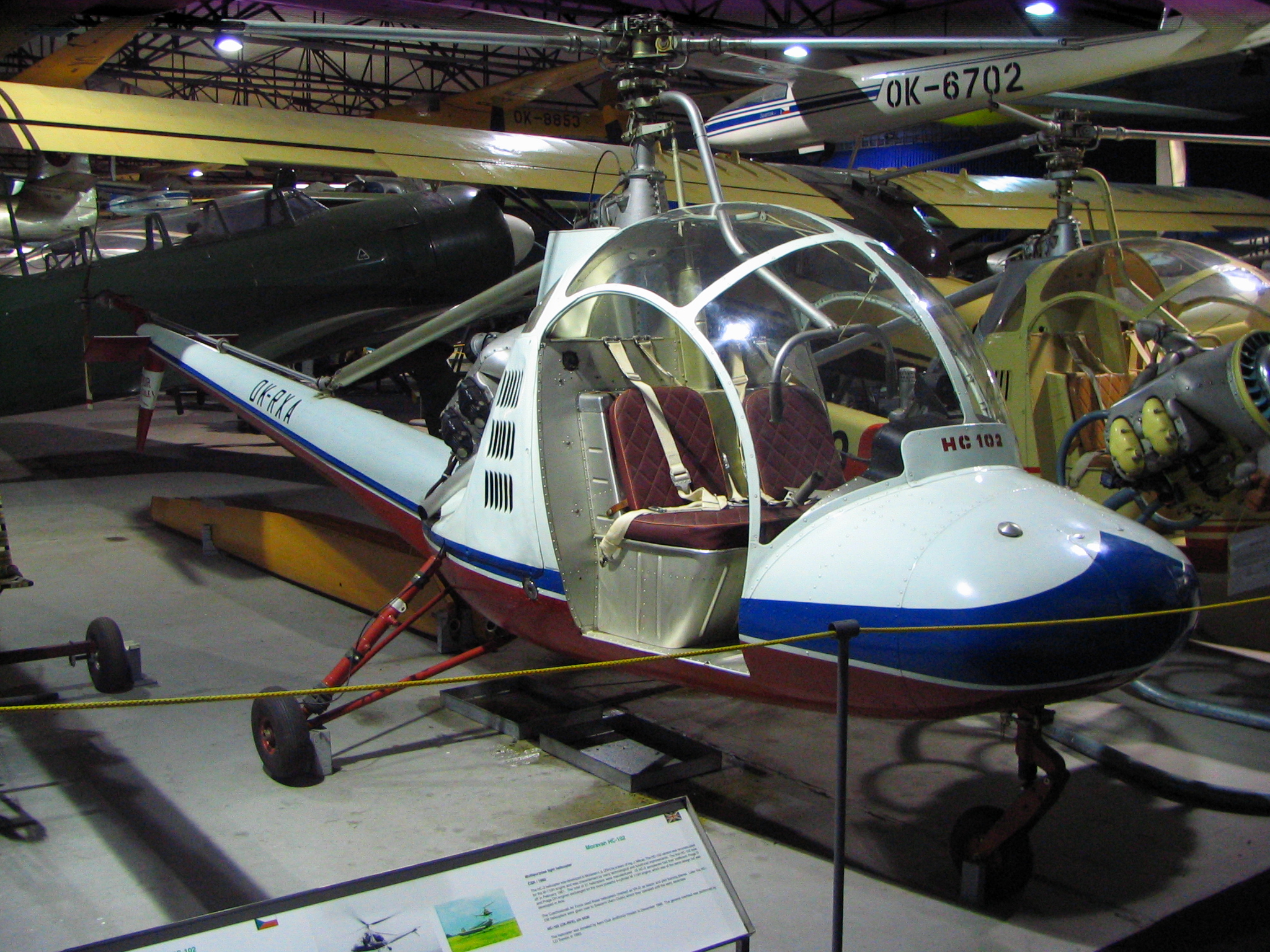 Helicopter Moravan HC-102